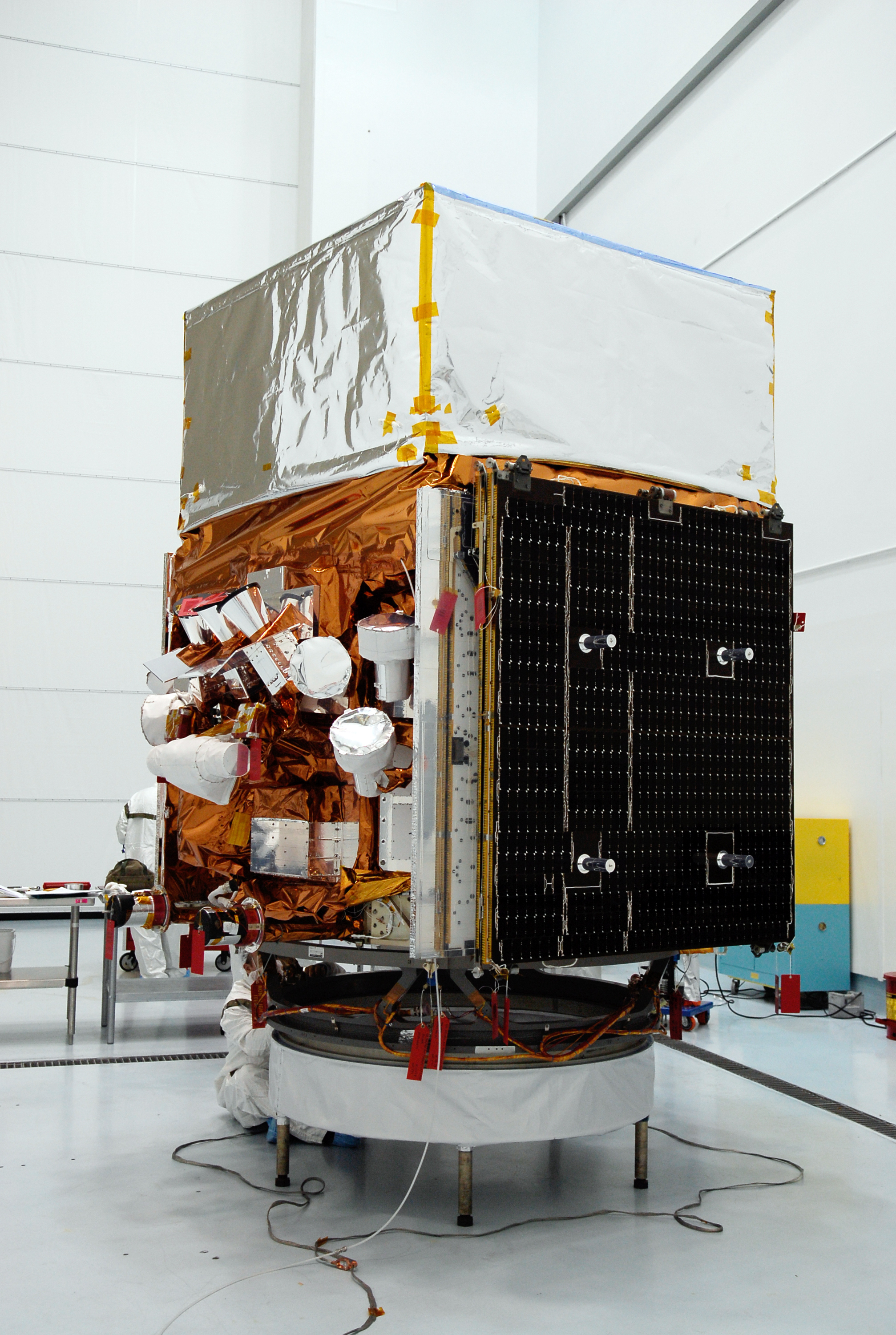 The GLAST satellite ist sitting on its payload attach fitting.